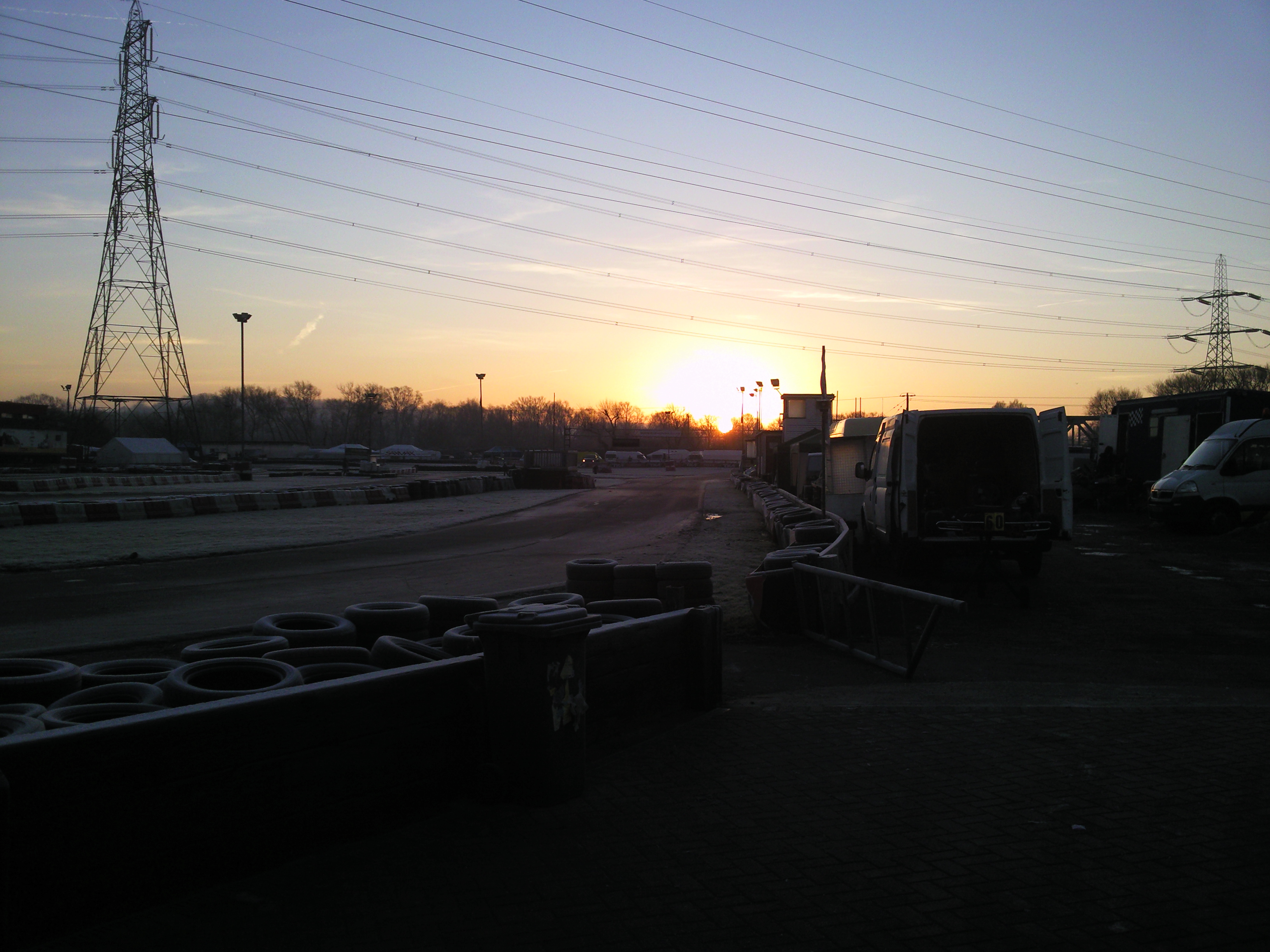 Rye House Kart Circuit. 8.10 am Sunday 7th December 2008. The morning before the Hoddesdon Kart Club meeting